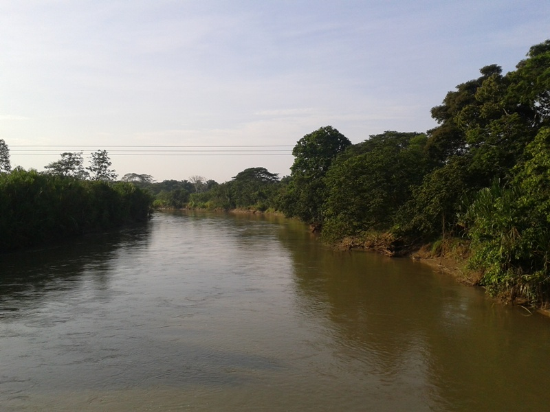 Santo Domingo River, Barinas State. Venezuela.